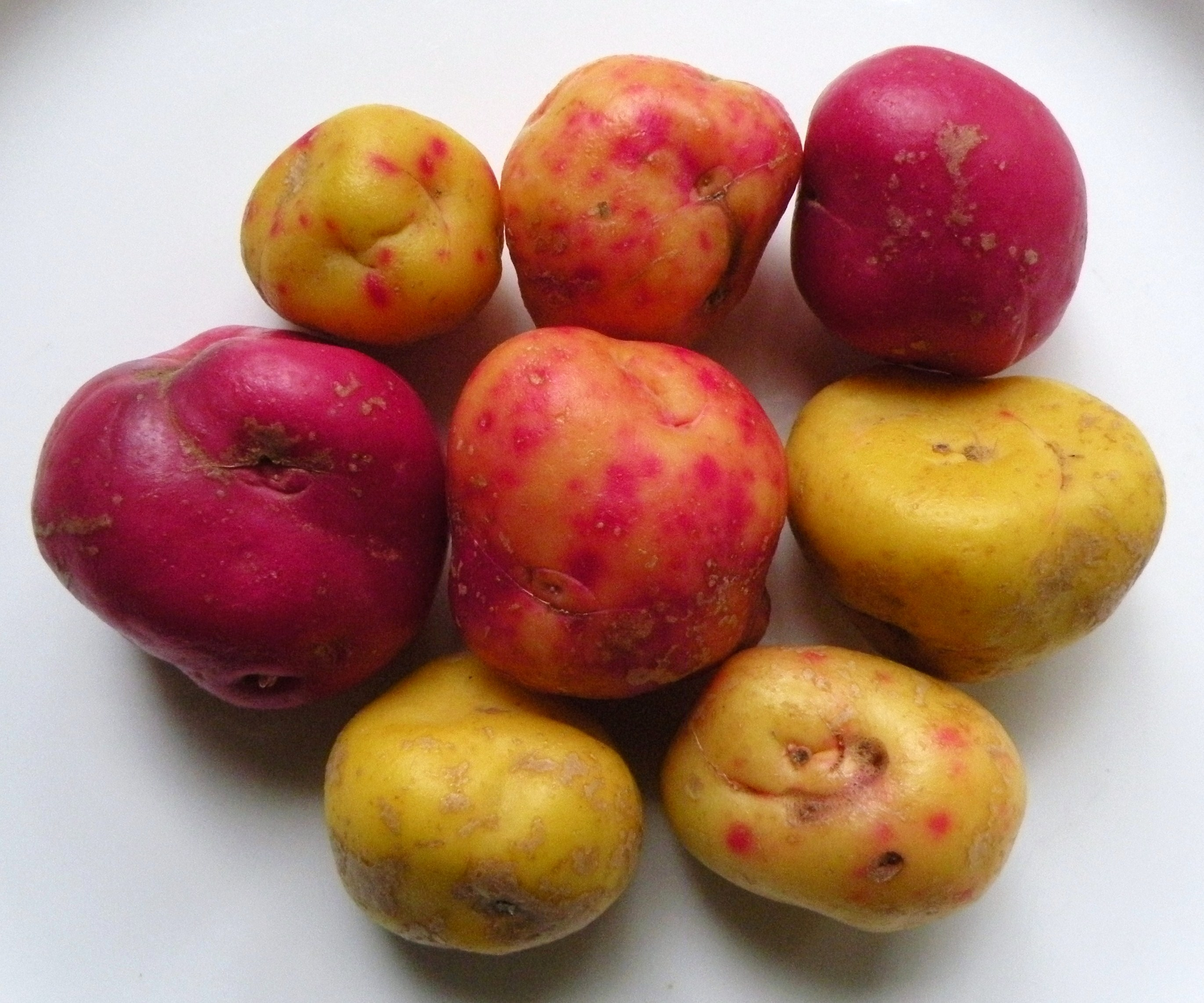 Commercially available Ulluco in New Zealand